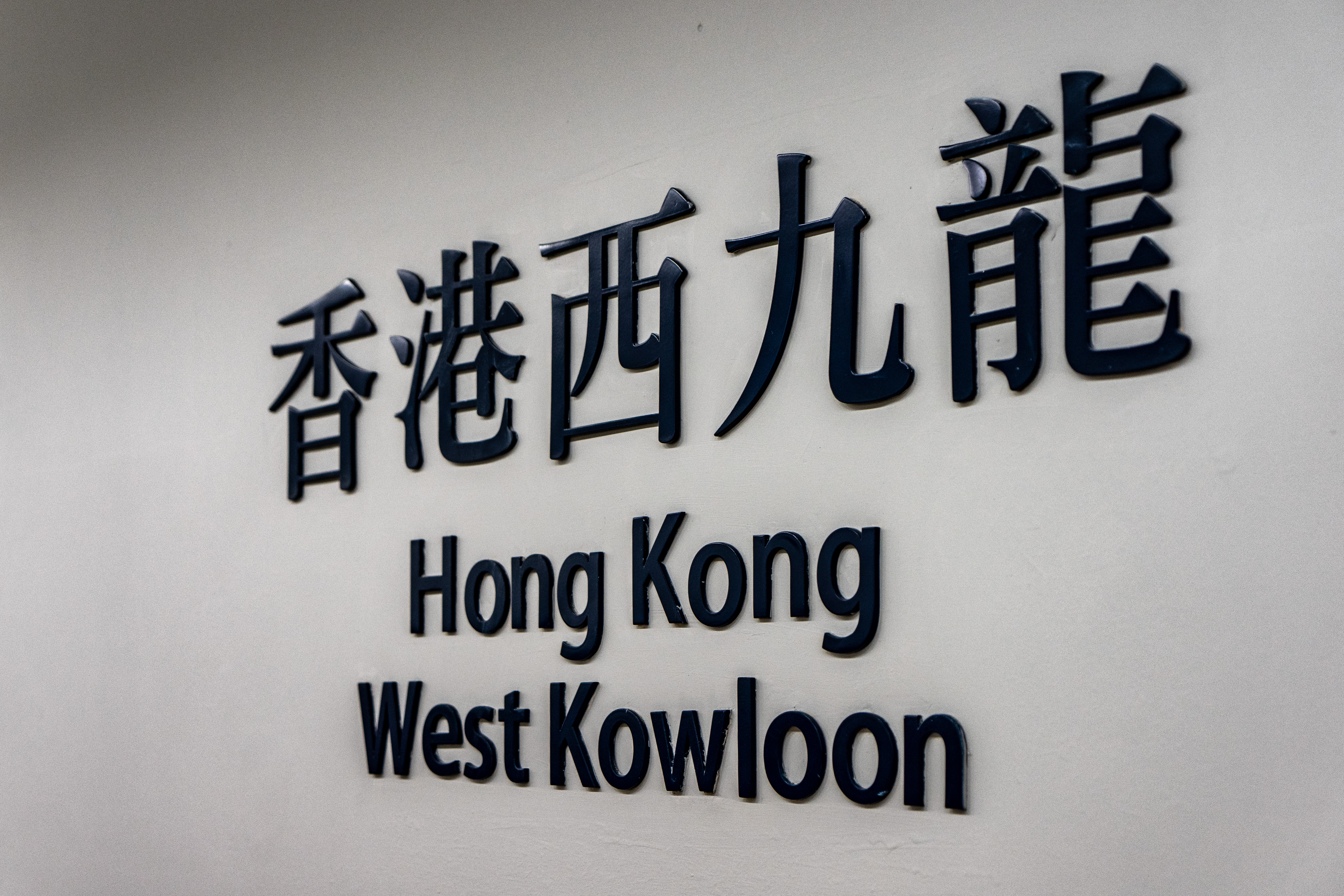 The sign of Hong Kong West Kowloon Station on the platform.